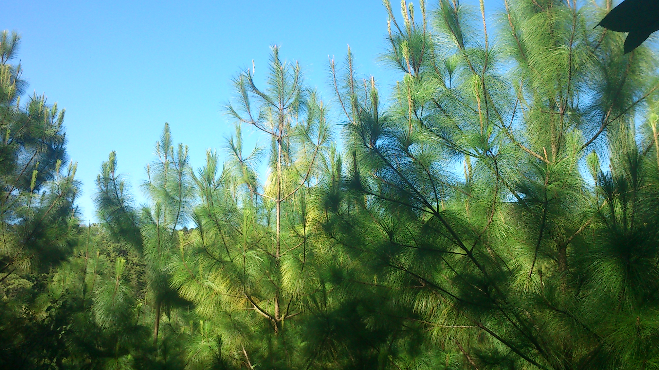 7 year old Pinus maximinoi, san raymundo Guatemala 1650mtsnm.